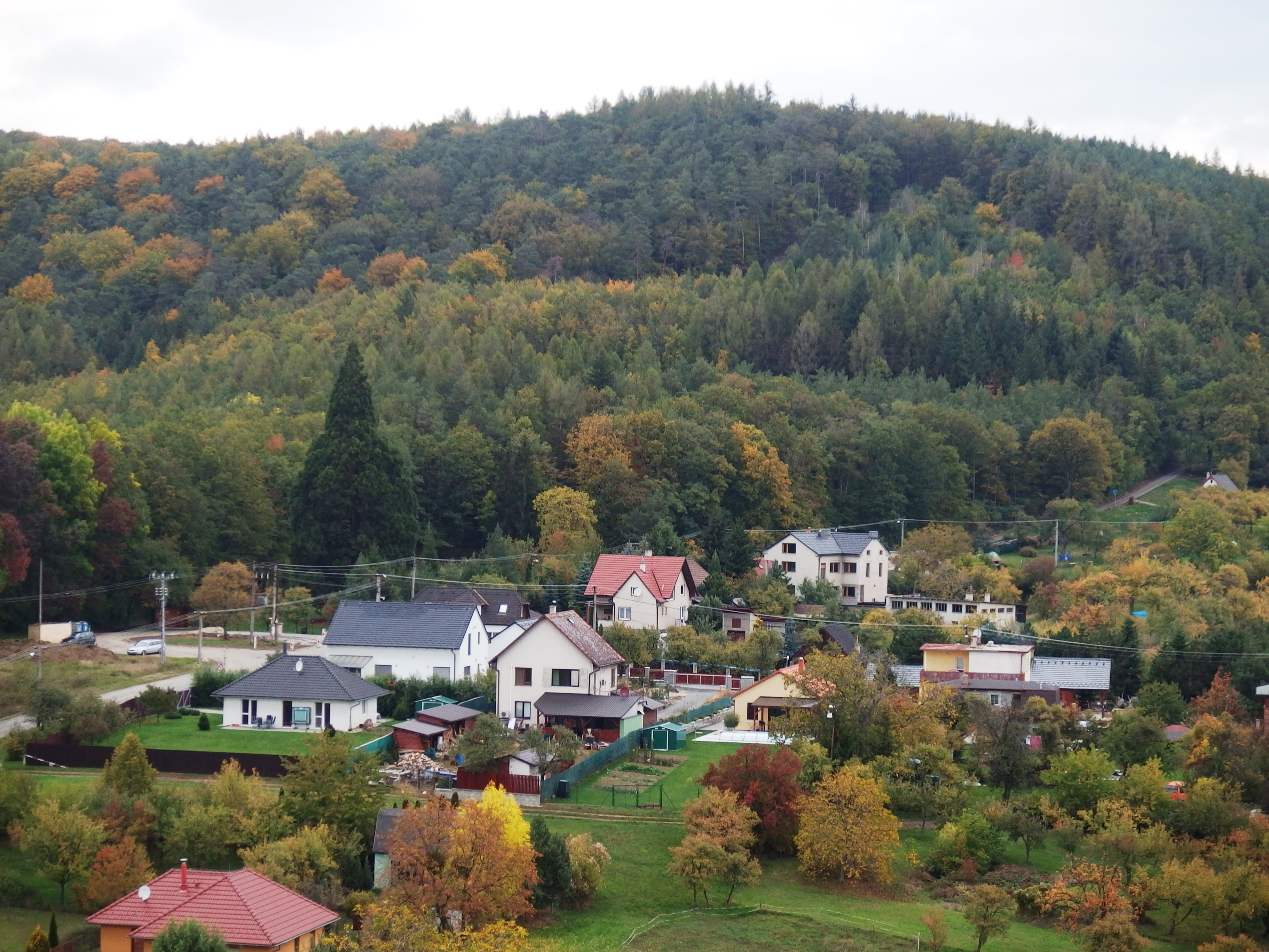 Břestek, Uherské Hradiště District, Czech Republic, part Chabaně.